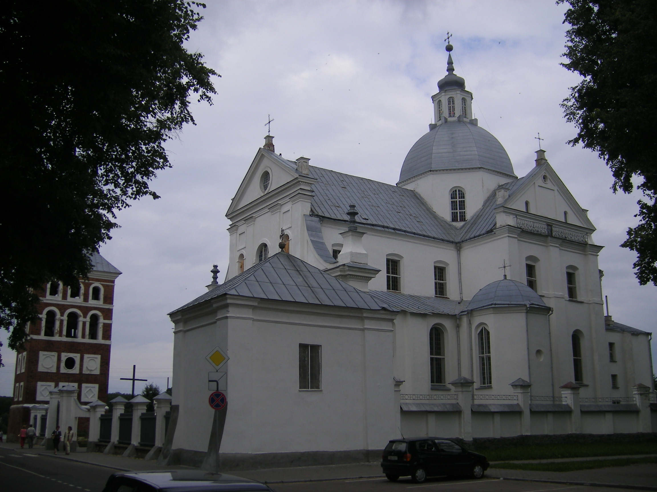 Niasvizh jesuite church